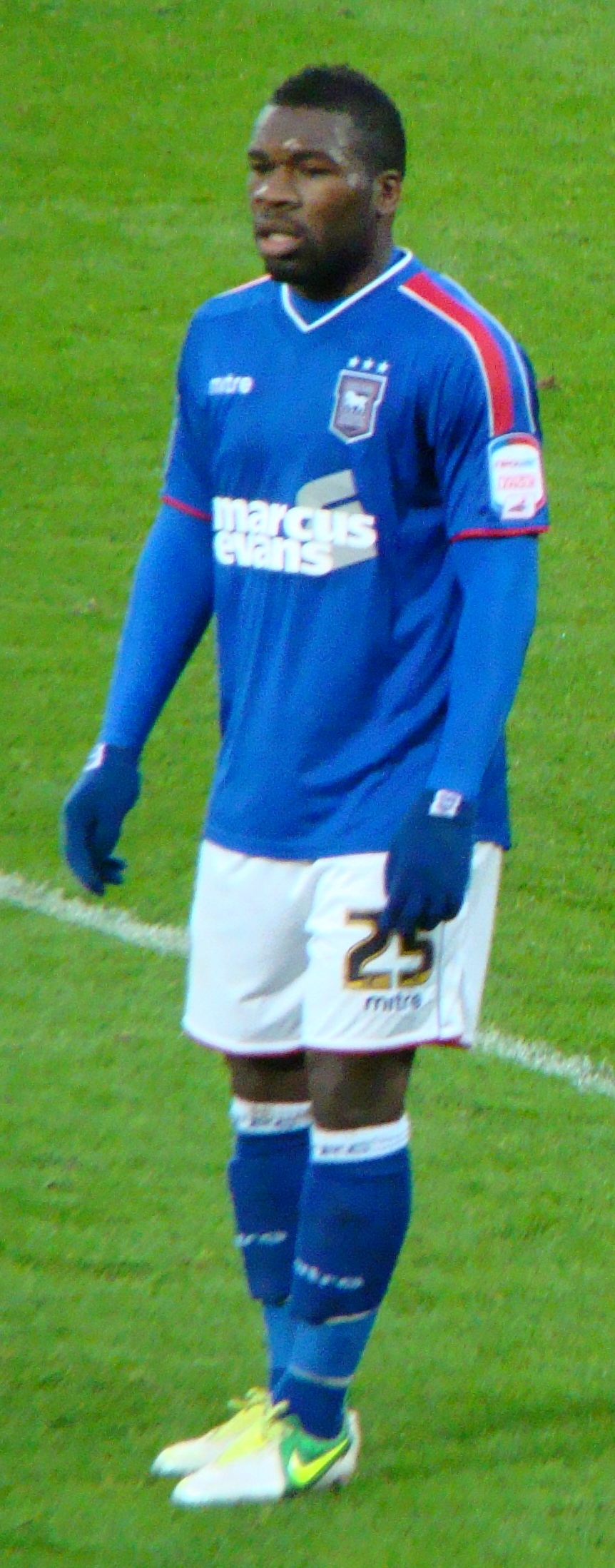 Aaron McLean. Image cropped from original at flickr.